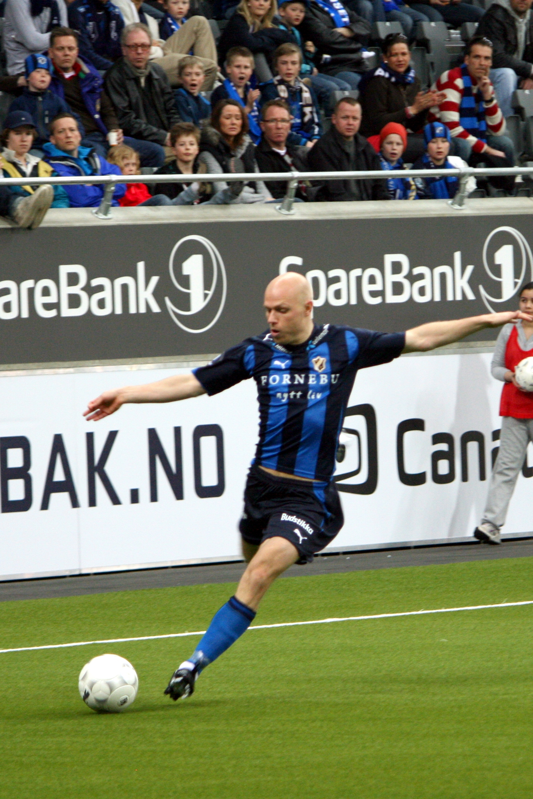 Danish footballer Christian Keller.